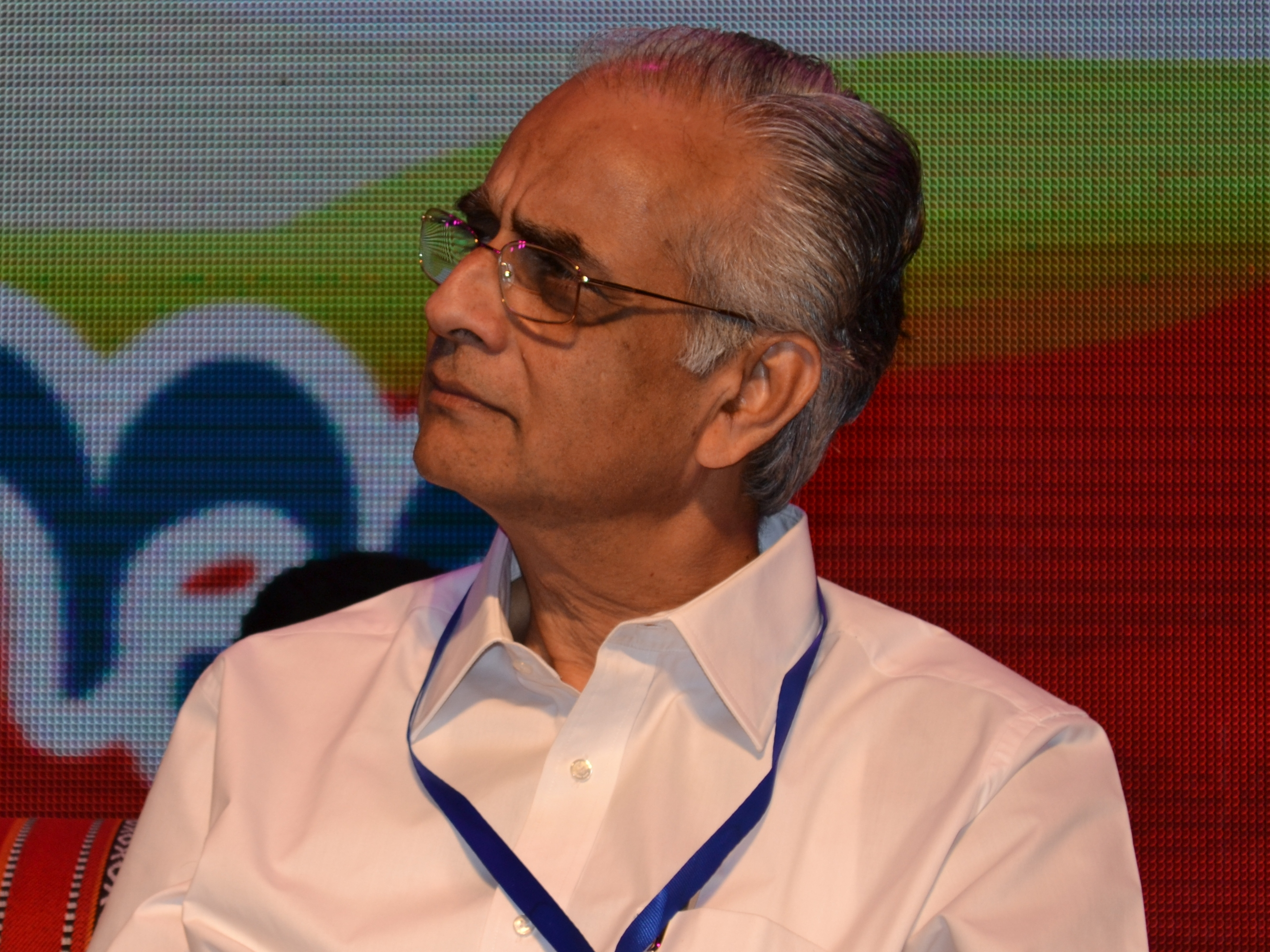 K. Jayakumar at Qatar Keraleeyam event